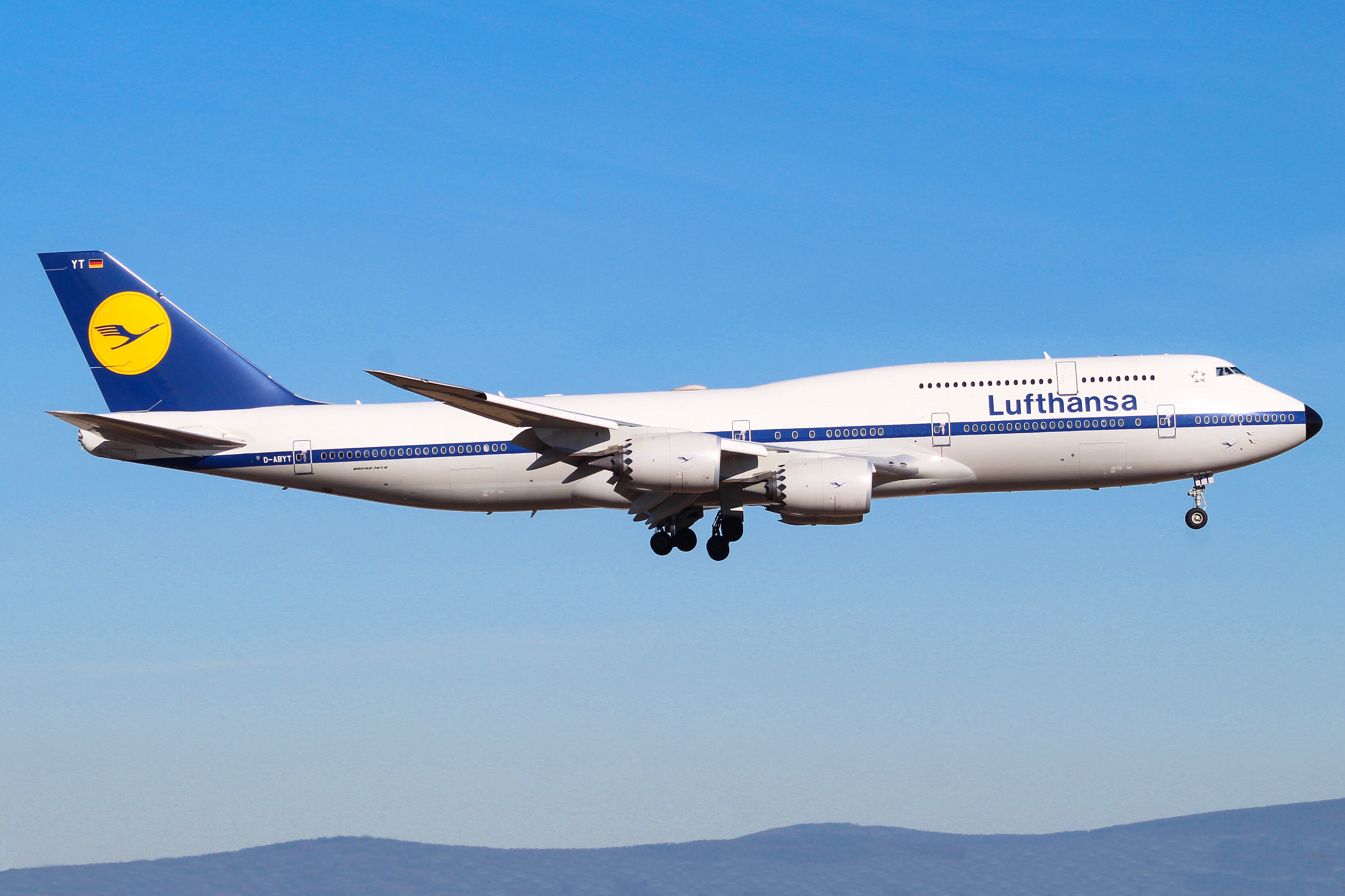 Lufthansa Boeing 747-8 (Retro livery) during landing at Frankfurt Airport.